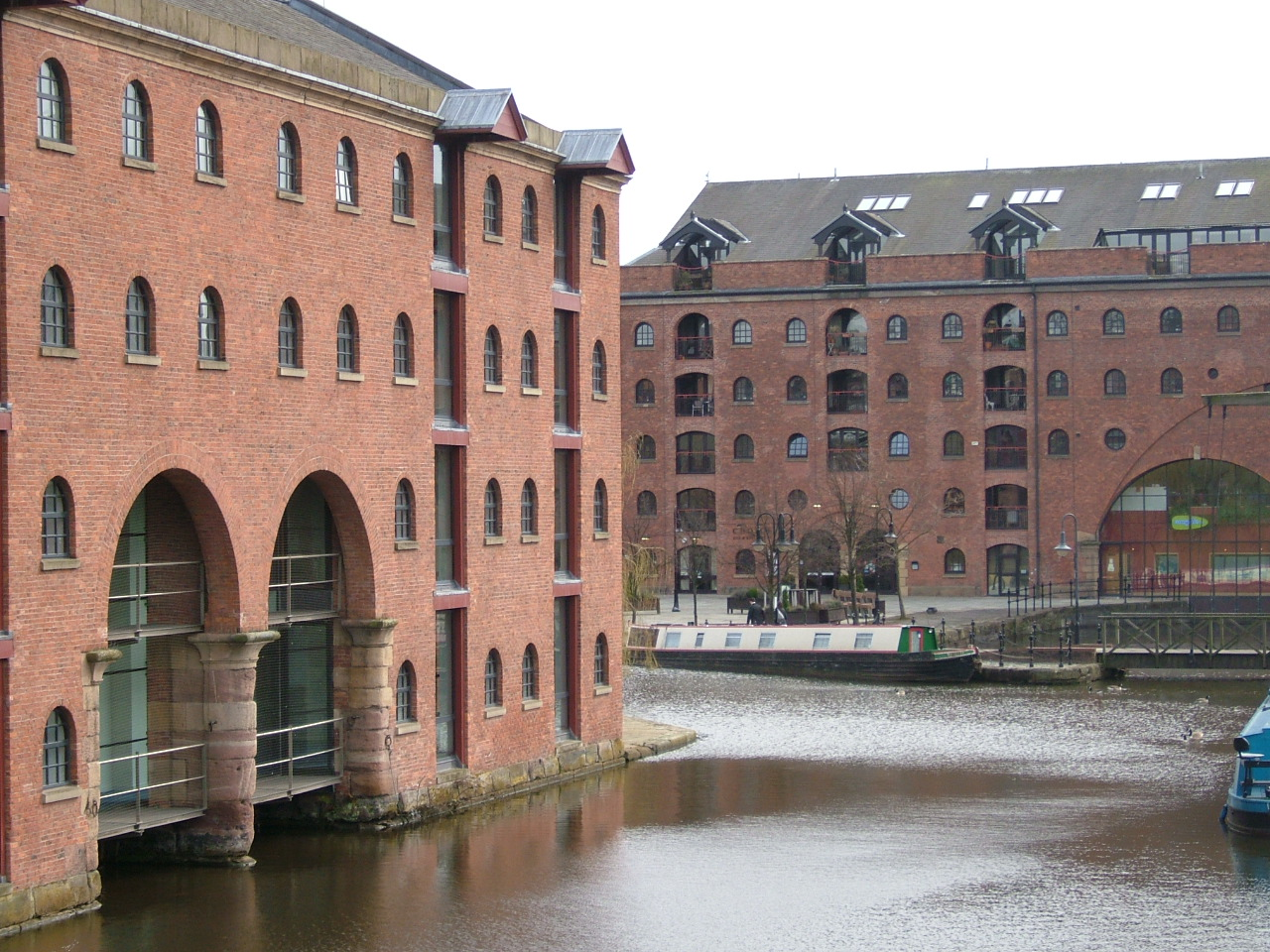 The Bridgewater Canal was commissioned by Francis Egerton, 3rd Duke of Bridgewater, to transport coal from his mines in Worsley to Manchester. Castlefield was the Manchester basin, and it was watered by the River Medlock. In 1802 the Rochdale Canal joined here at Dukes Lock. A series of Canal Warehouses were built by the various traders. Merchants' Warehouse with Middle Warehouse behind.